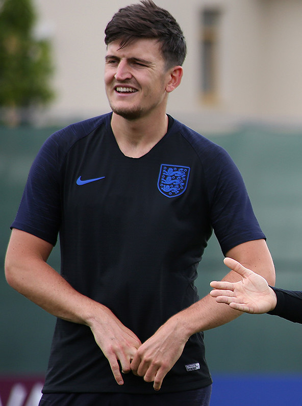 Harry Maguire and Kieran Tripper training for England at the 2018 FIFA World Cup